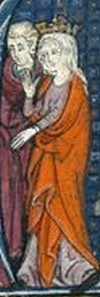 Agnes of Courtenay